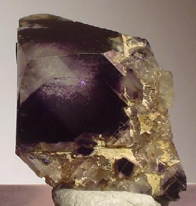 Fluorite Locality: Epprechtstein Mt., Kirchenlamitz, Weißenstadt, Fichtelgebirge, Franconia, Bavaria, Germany (Locality at ) Size: 2.4 x 2.3 x 2.0 cm. A fine, old German fluorite specimen of a water-clear, gem cube with a corner modification that gives a stunning clarity at that tip, so you can look down inside. It has a thin, outer layer of purple, except at the corner. Ex. John Ydren Collection.